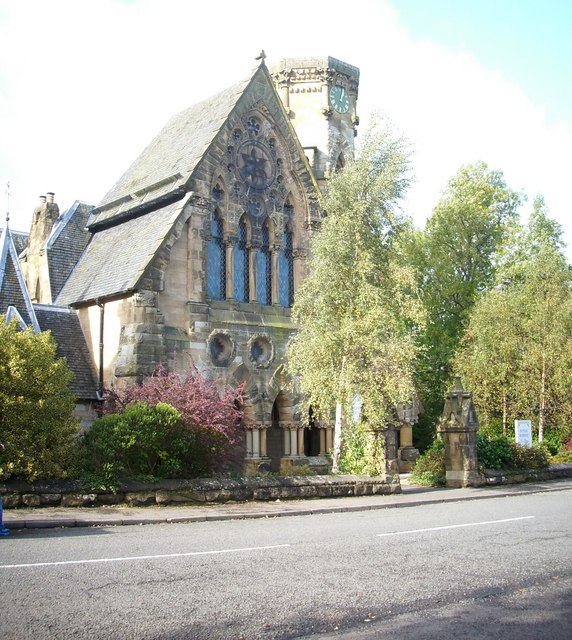 The South Kirk at Penicuik.